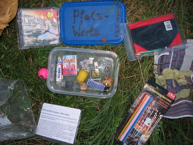 Geocache Pfalz Werla in Deutschland.